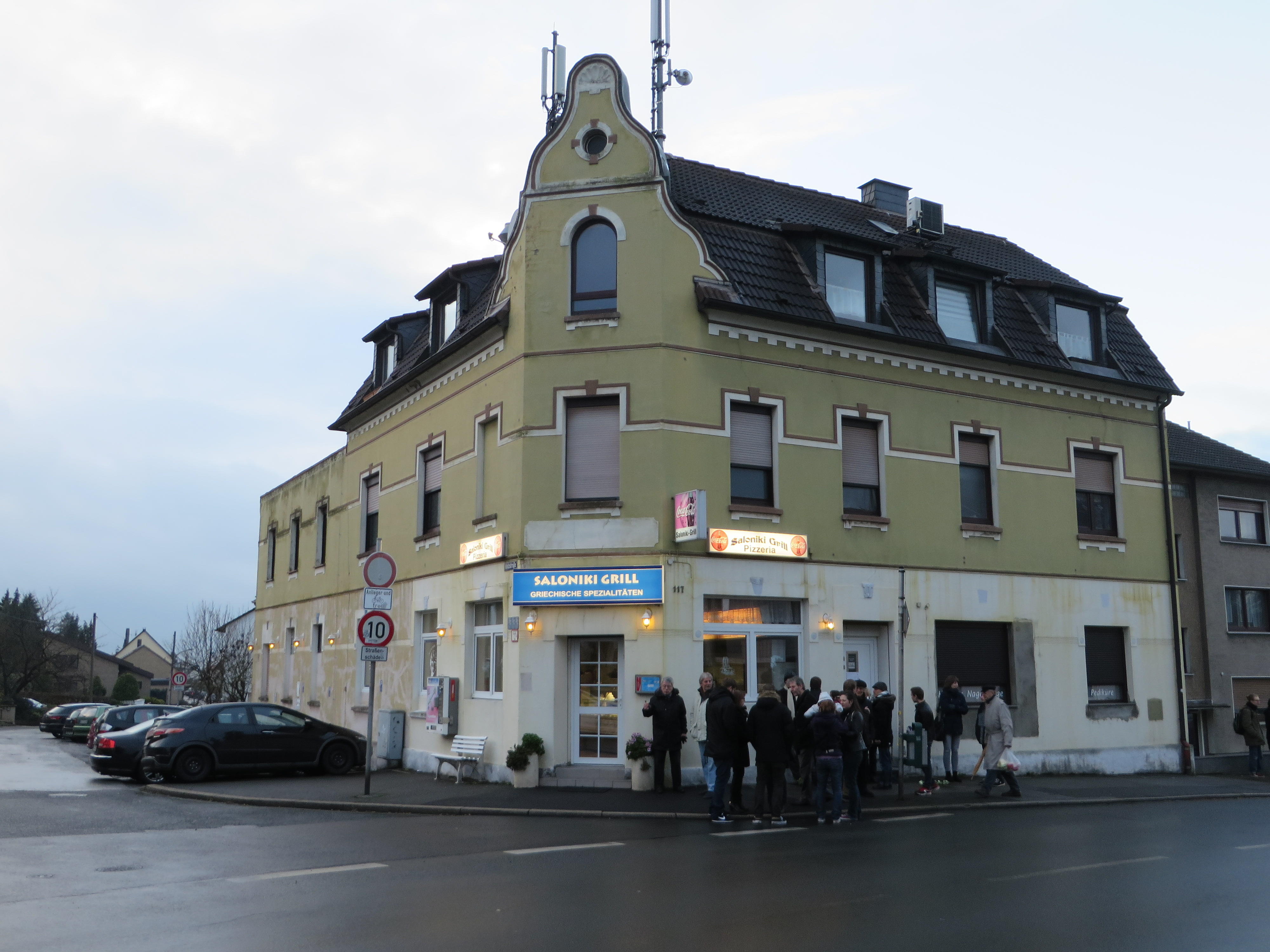 House Kohlensiepen 117 in Witten, GermanyEsperanto: Domo Kohlensiepen 117 en Witten, Germanio